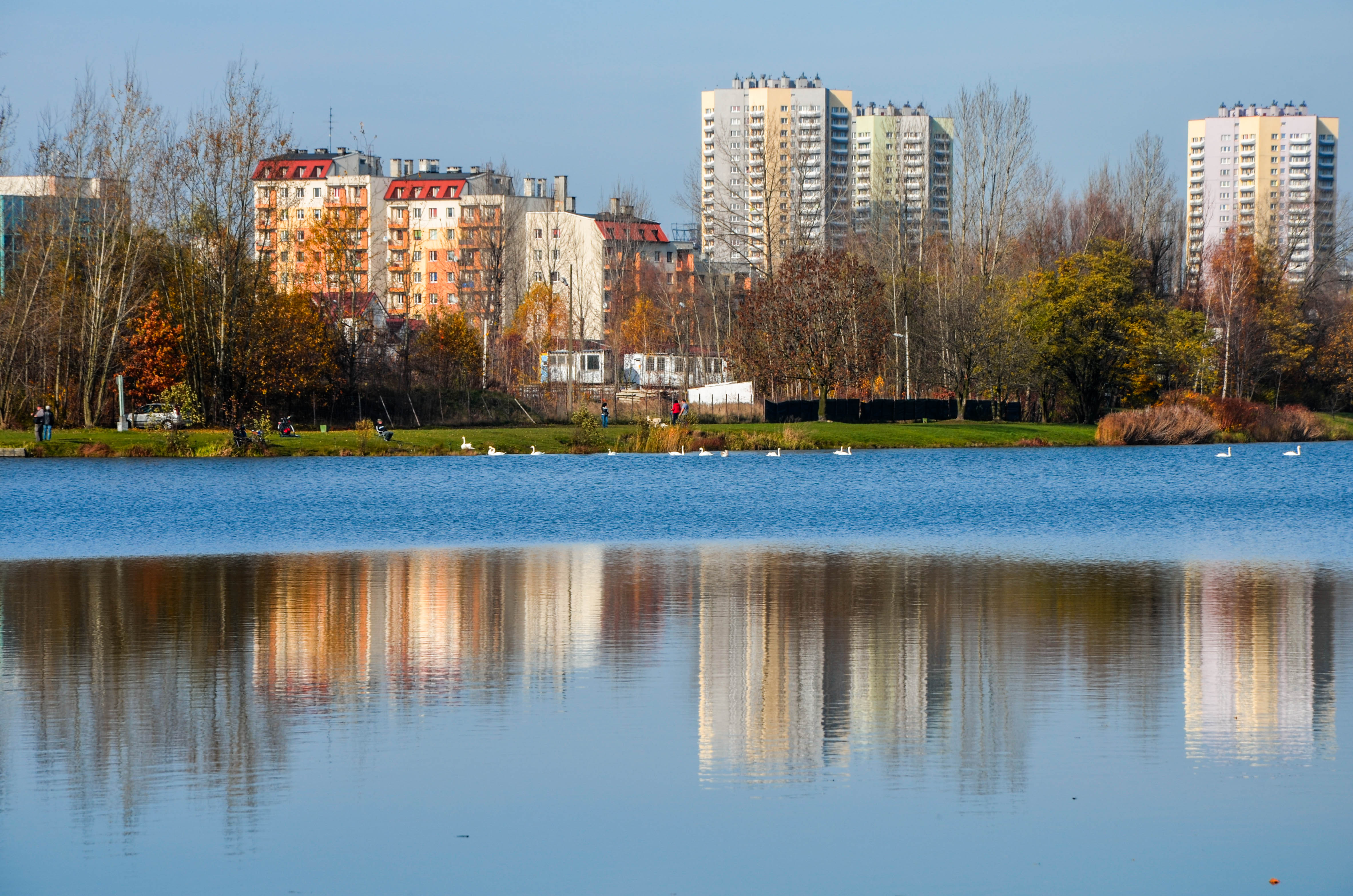 Dolina trzech stawów w Katowicach